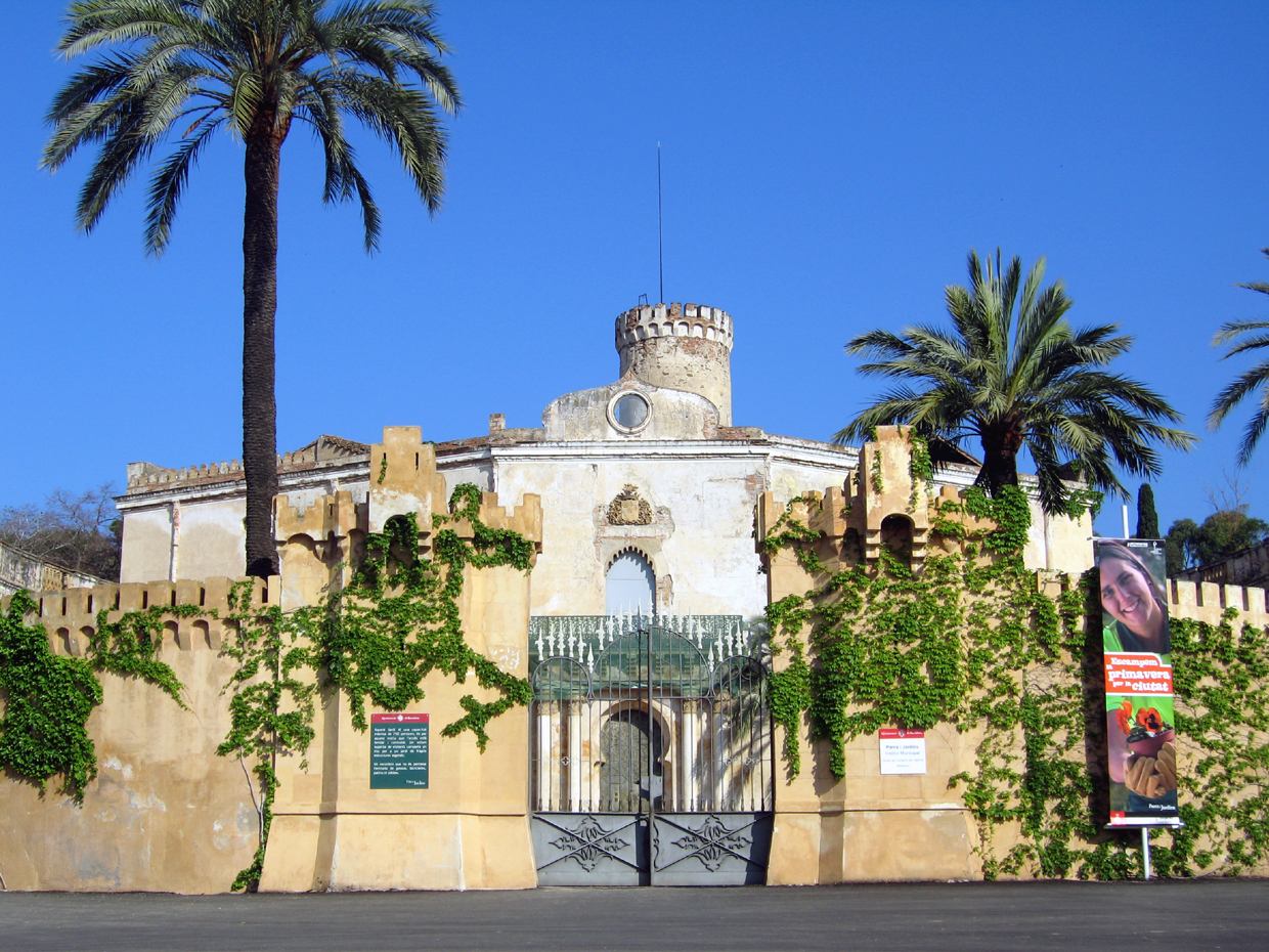 The Palau Desvalls (“Desvalls’ Palace”) in the Parc del Laberint d’Horta in Barcelona, Catalonia (Spain).